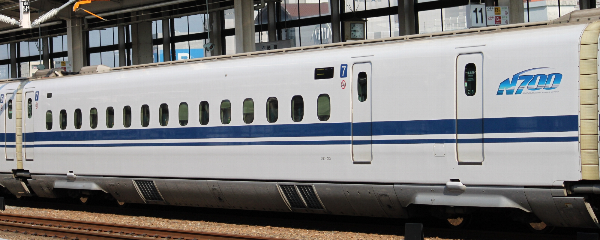 Shinkansen series N700(787-413) in Himeji Station